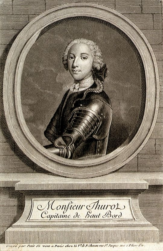 French corsair and naval officer François Thurot